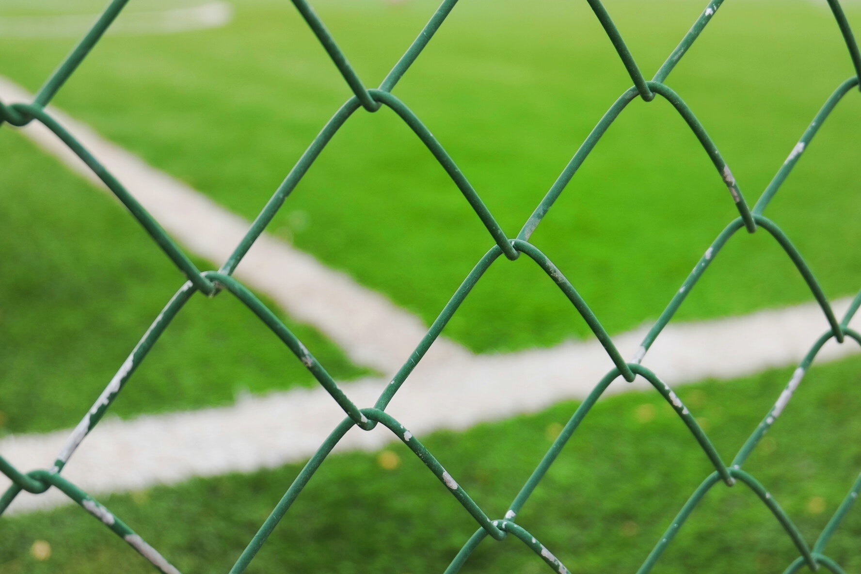 wire mesh in a playground